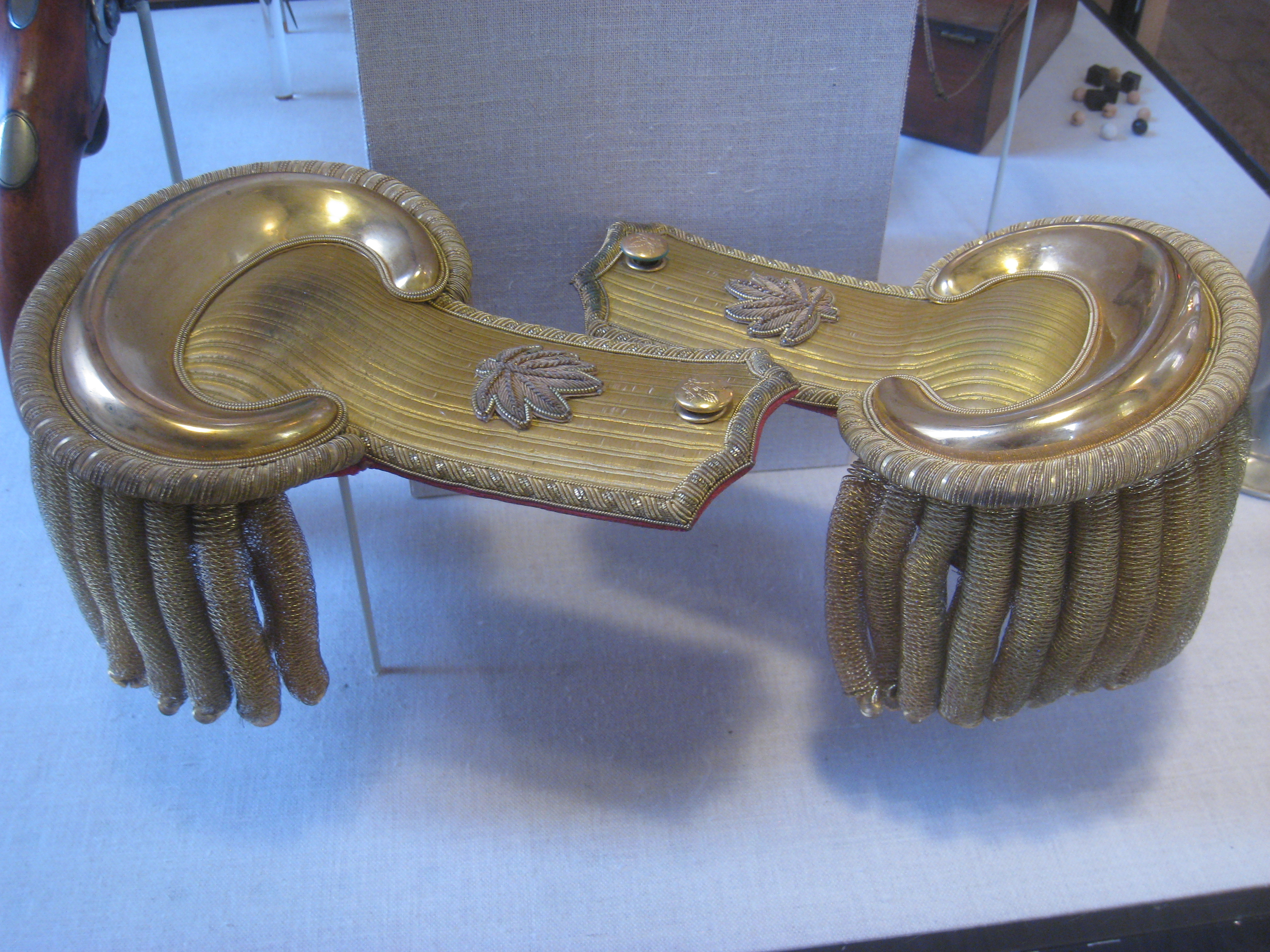 Epaulets belonging to Gen. Joseph A. Ingalls, 1800s - Old State House Museum, Boston, Massachusetts, USA.